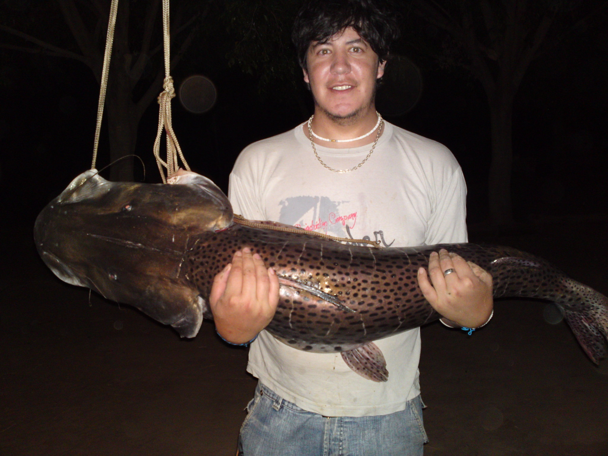 Pesca de surubí en el Río Bermejo, provincia de Salta (Argentina)